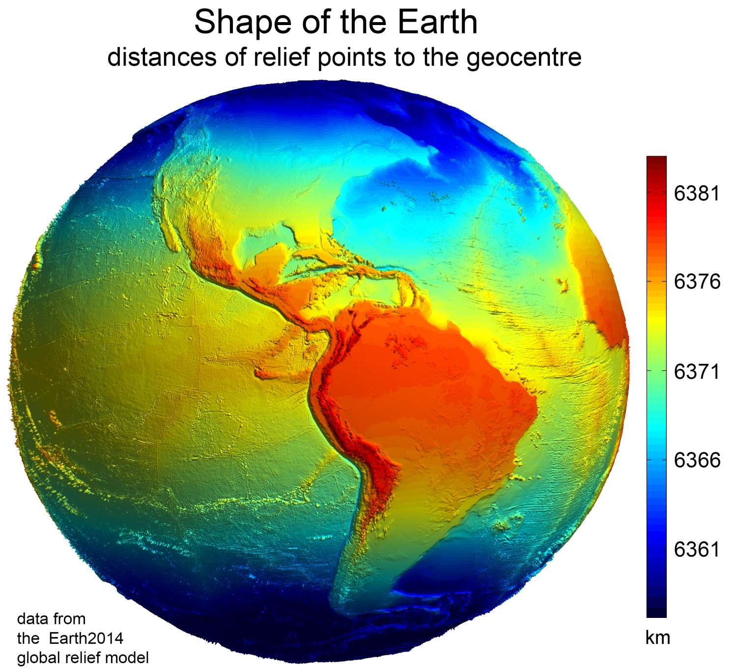 Earth shape, as given by the Earth2014 global relief model. Shown are distances between relief points and the geocentre